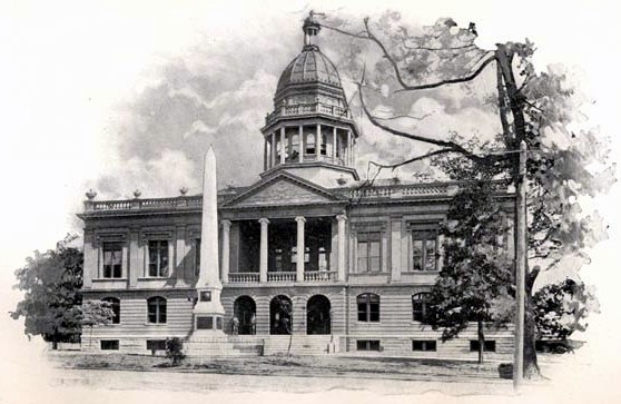 1898 picture of one of the old Mecklenburg County Court Houses in Charlotte, North Carolina. This building was the Court House from 1897 to 1928. In front is a monument honoring the signers of the Mecklenburg Declaration of Independence. The building no longer exists, but the monument now stands behind another old court building.